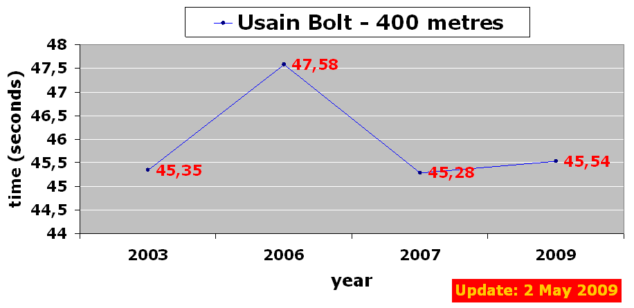 The performance curve Usain Bolt ran the 400 meters. Update: 2 May 2009.